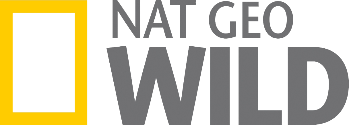 This is the logo of the television channel National Geographic Wild.